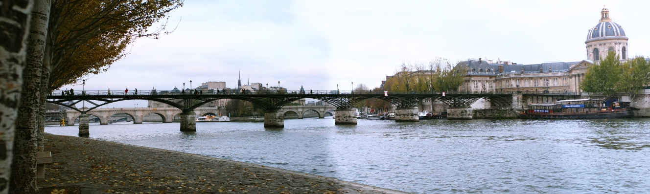 pont das arts; 3 images stiched with hugin and enblend. unfortunately bad exposure correction...